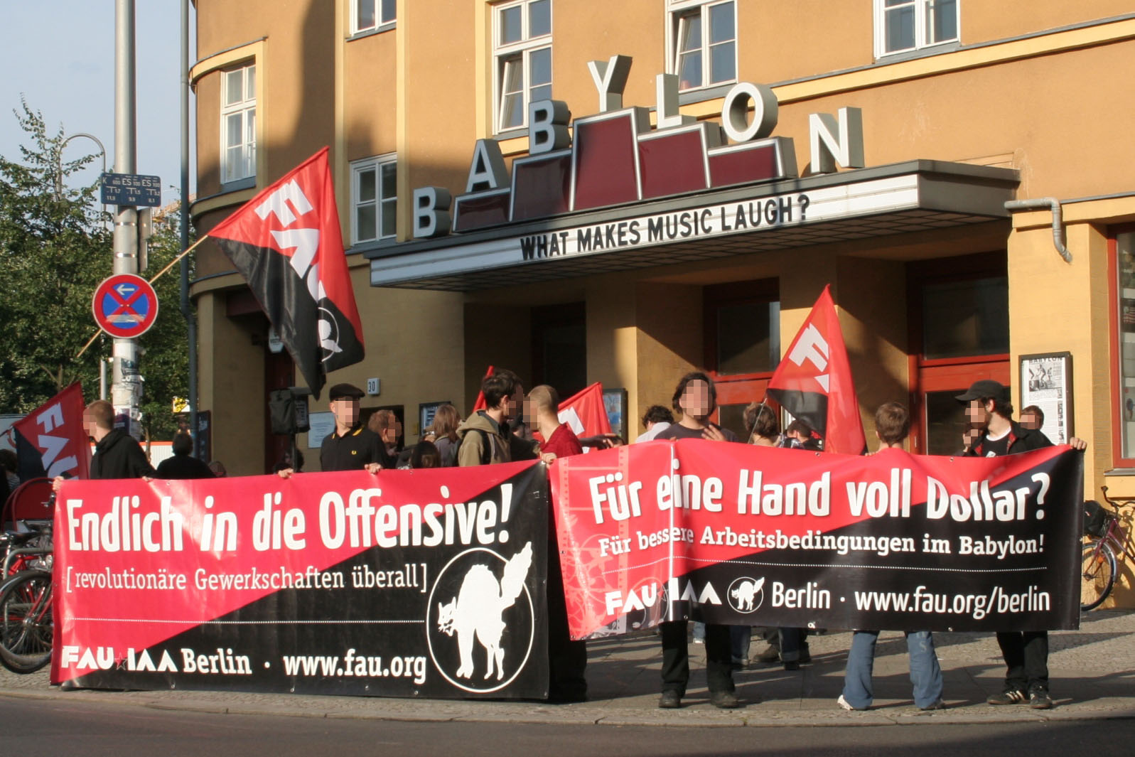 Demonstration of the FAU in front of the cinema Babylon